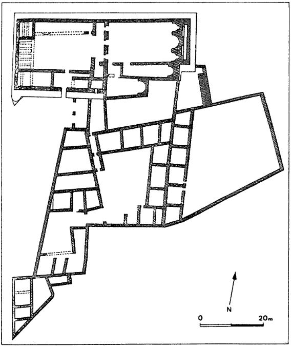 Northern church in Shivta, by Woolley&Lawrece, 1914